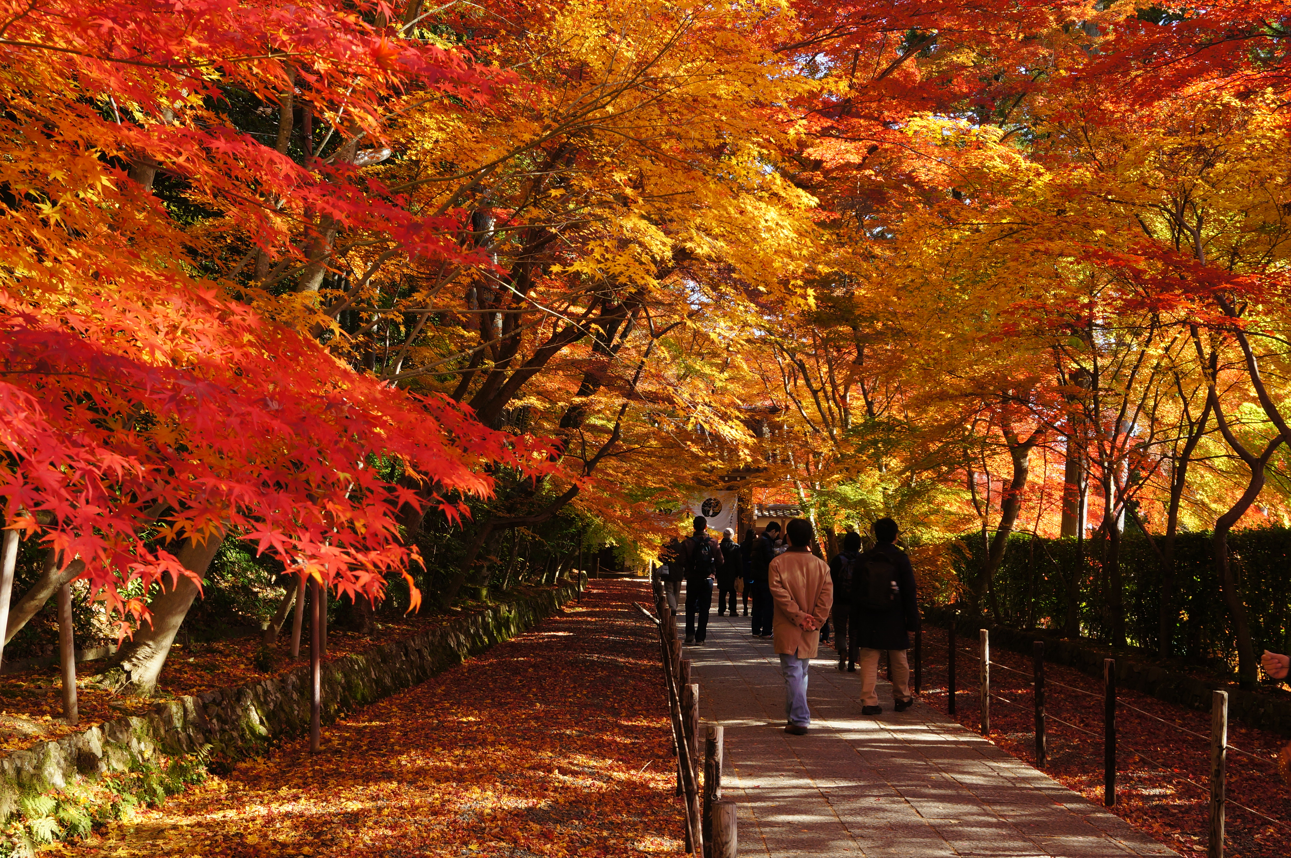 At Kōmyō-ji in Nagaokakyō, Kyoto prefecture, Japan